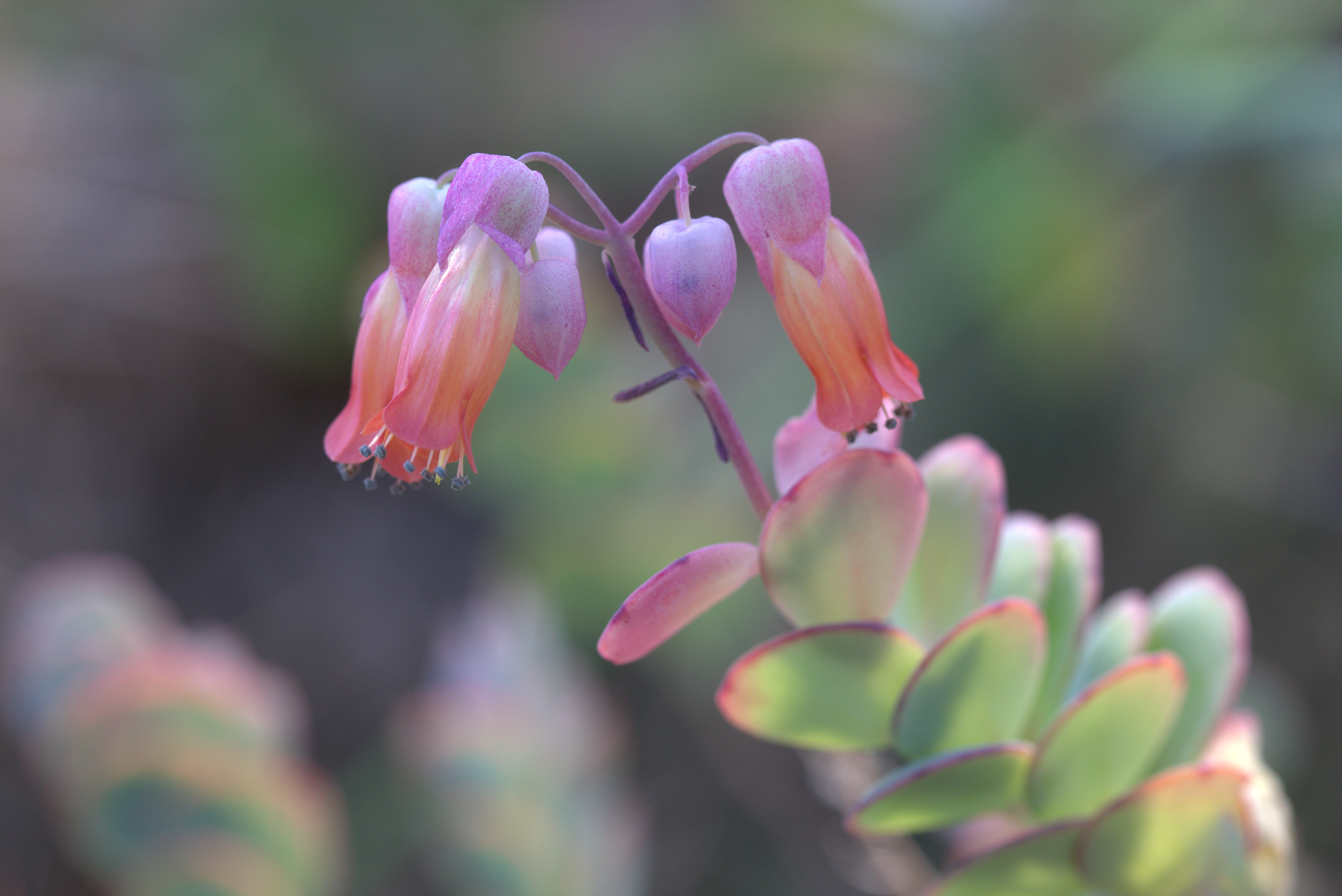 Kalanchoe marnieriana at Gothenburg Botanical Garden in 2015. Plant id: 1988-V0354 p G